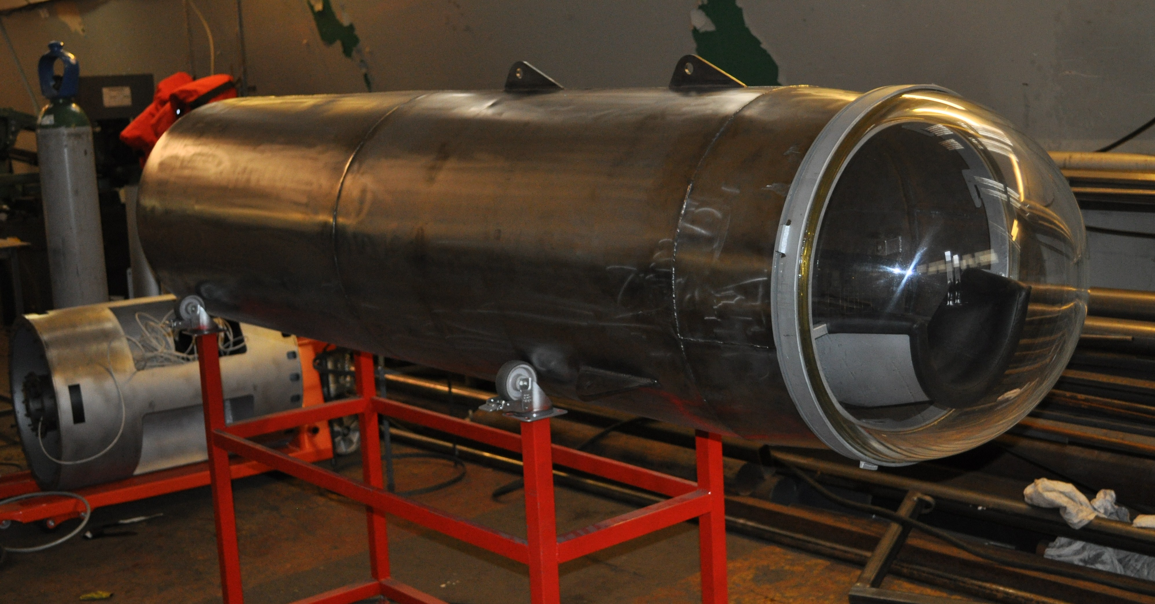 The micro spacecraft (MSC) will be launched by a HEAT rocket to an altitude above 100 km. Prior to re-entry it will jettison the booster and decelerate by a succession of parachutes. This version named "Tycho Brahe 1" is 640 mm in diameter and should support a crash test dummy in a June 2010 flight to 40 km. The temperatures are expected to be below 200°C rendering a heat shield superfluous. The MSC supporting a person would be 800 mm in diameter, exclusive heat shield. The view dome is made of Perspex. The eyelets are for the parachutes. The MSC will be painted in glossy orange for easy recovery in the sea.